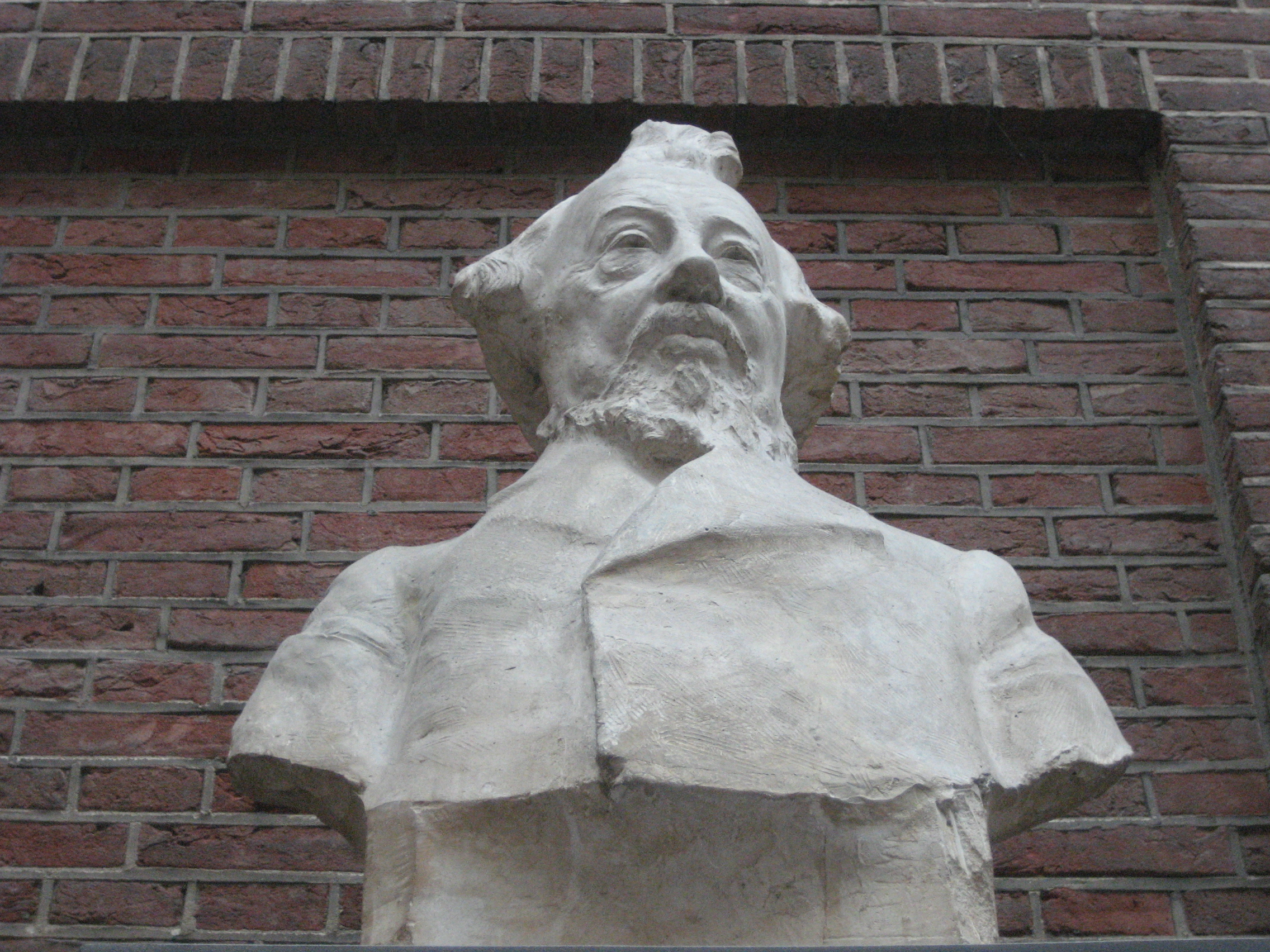 J.H.C. (Hendrik) Kern (1833-1917). Bust by Charles van Wijk (1875-1917). Location: Academy Building, Rapenburg, Leiden University (The Netherlands)